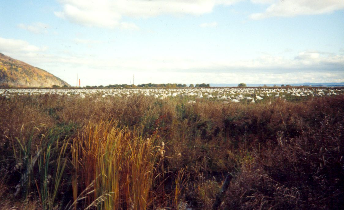 Snow geese Anser caerulescens in a field at the Cap Tourmente national wildlife reserve, Quebec, Canada.